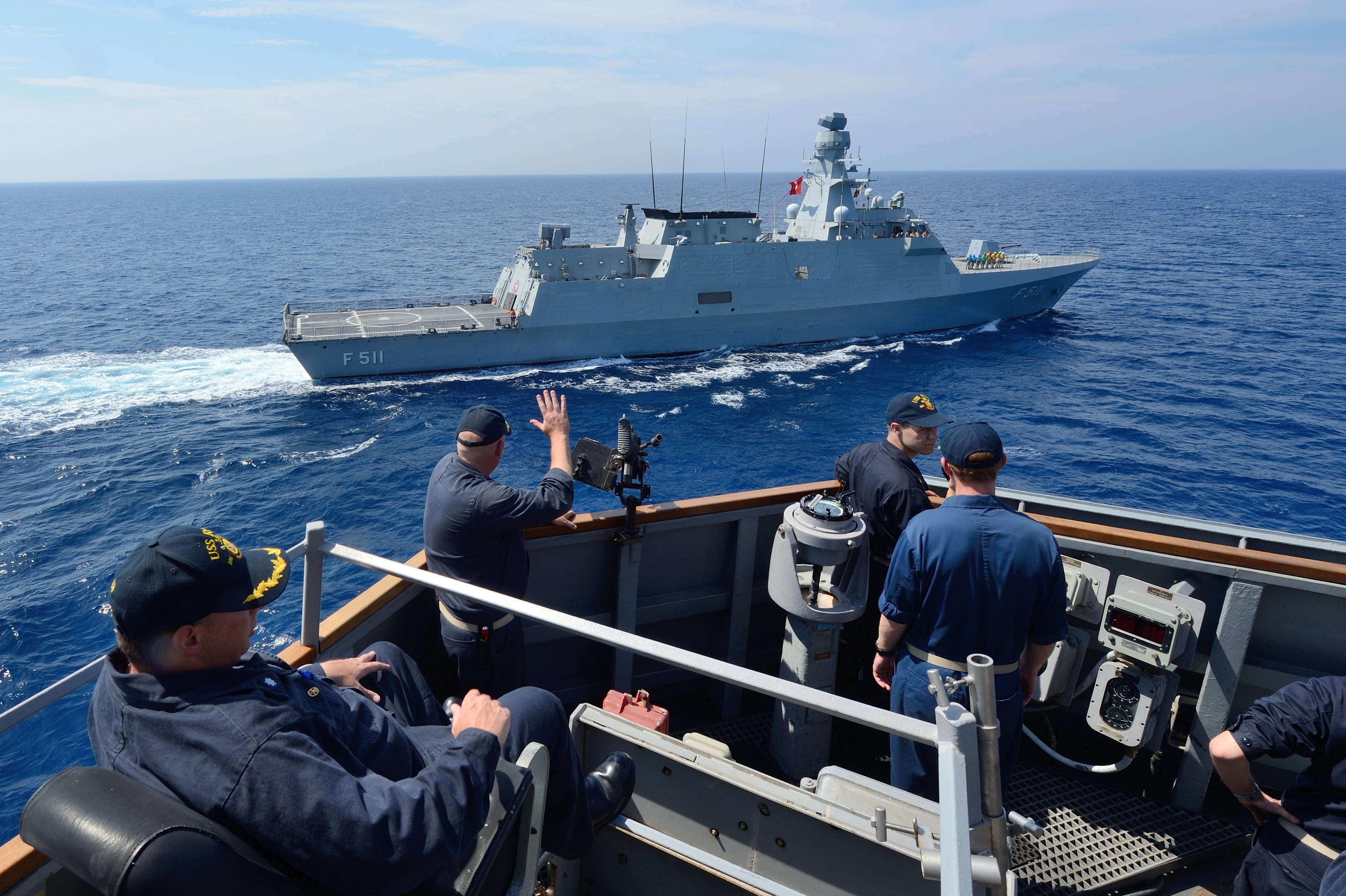 U.S. Navy Cmdr. Russell Caldwell waves to the Turkish corvette TCG Heybeliada (F 511) from aboard the guided missile destroyer USS Ross (DDG 71) in the Mediterranean Sea during a passing exercise Sept. 2, 2014. U.S. Navy guided missile destroyers took part in the European Phased Adaptive Approach program, operating in the Black Sea on a mission to train with partner nation navies and promote peace and stability in the region.